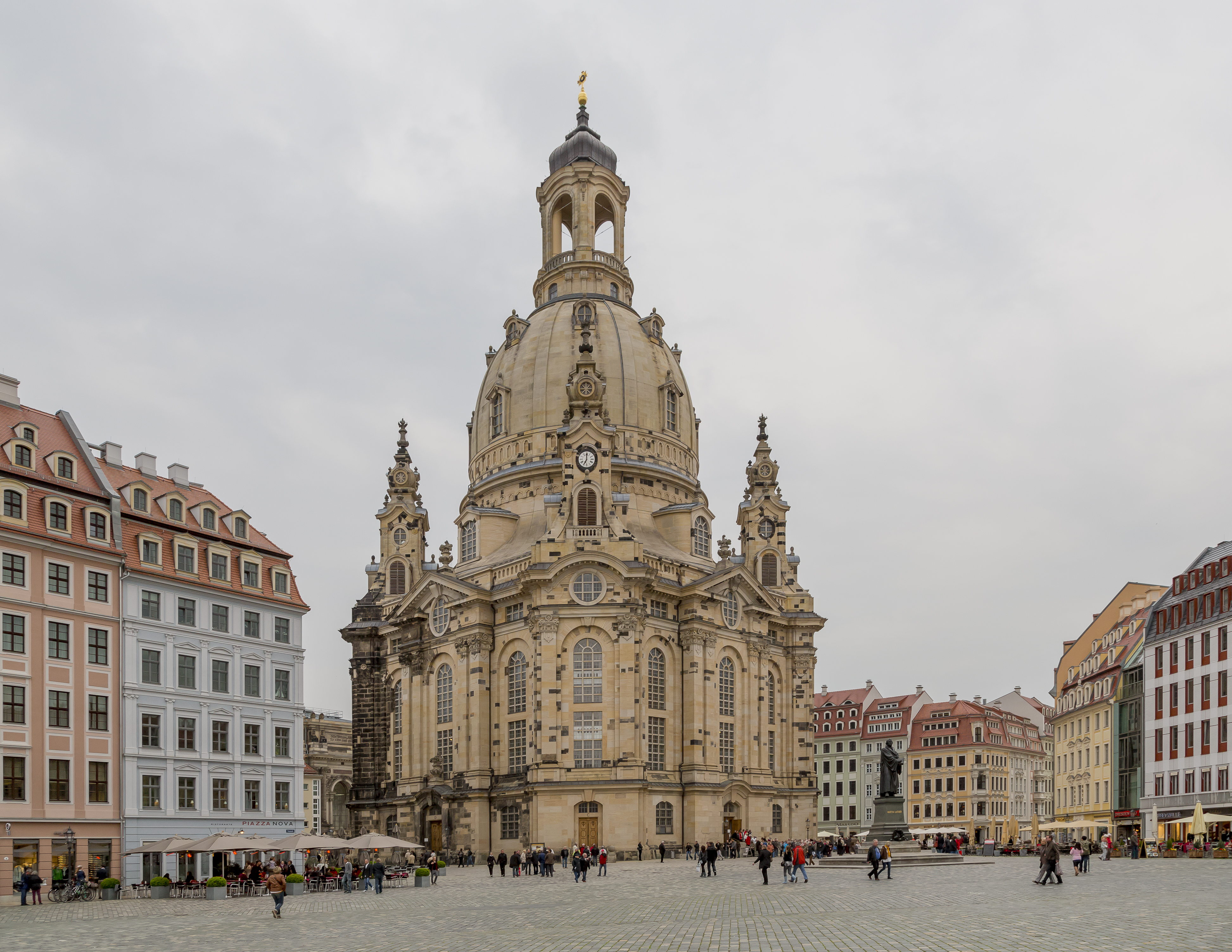 Dresden, Germany: Frauenkirche seen from Neumarkt Square